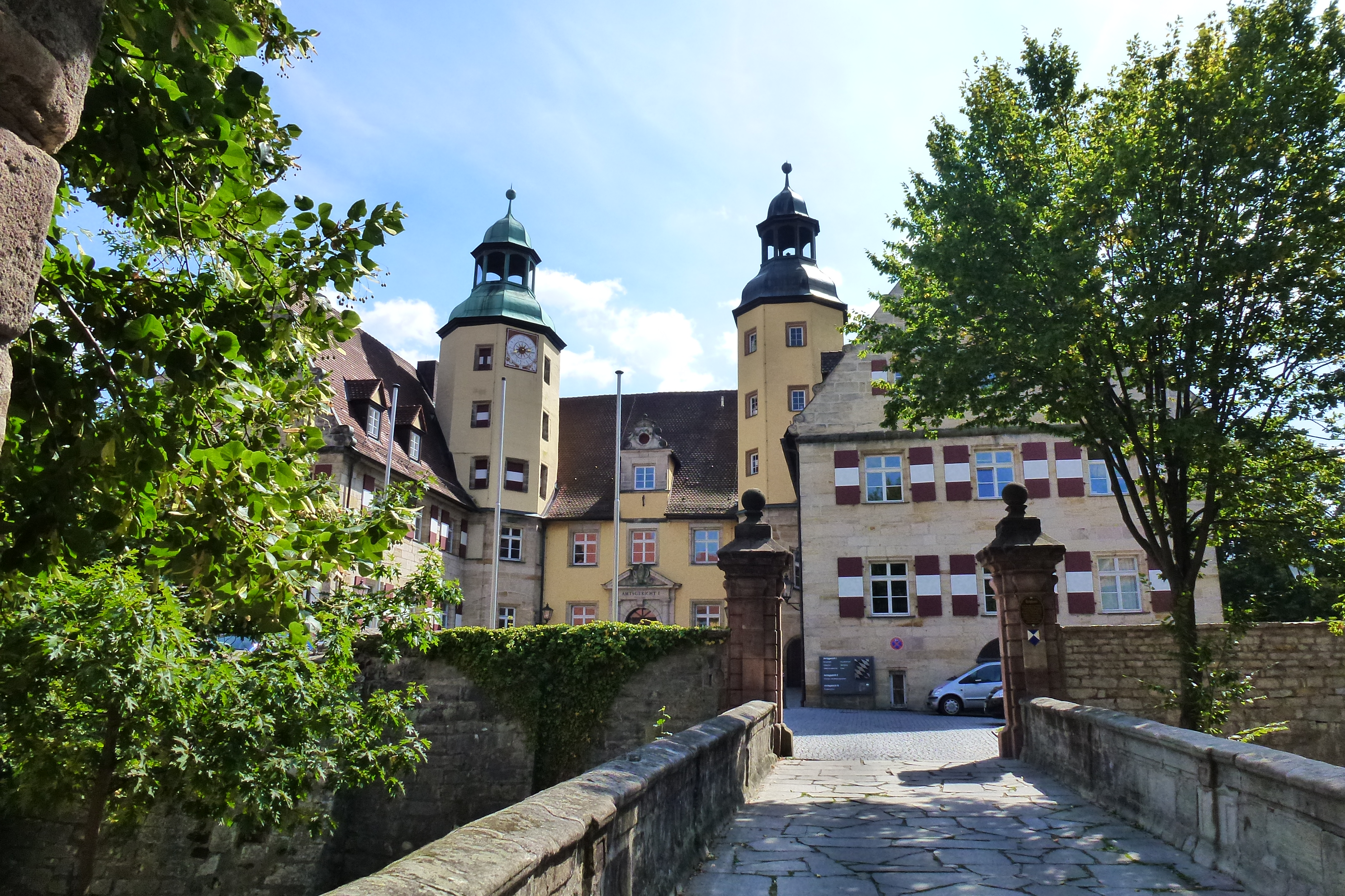 View by castle bridge on Hersburg castle